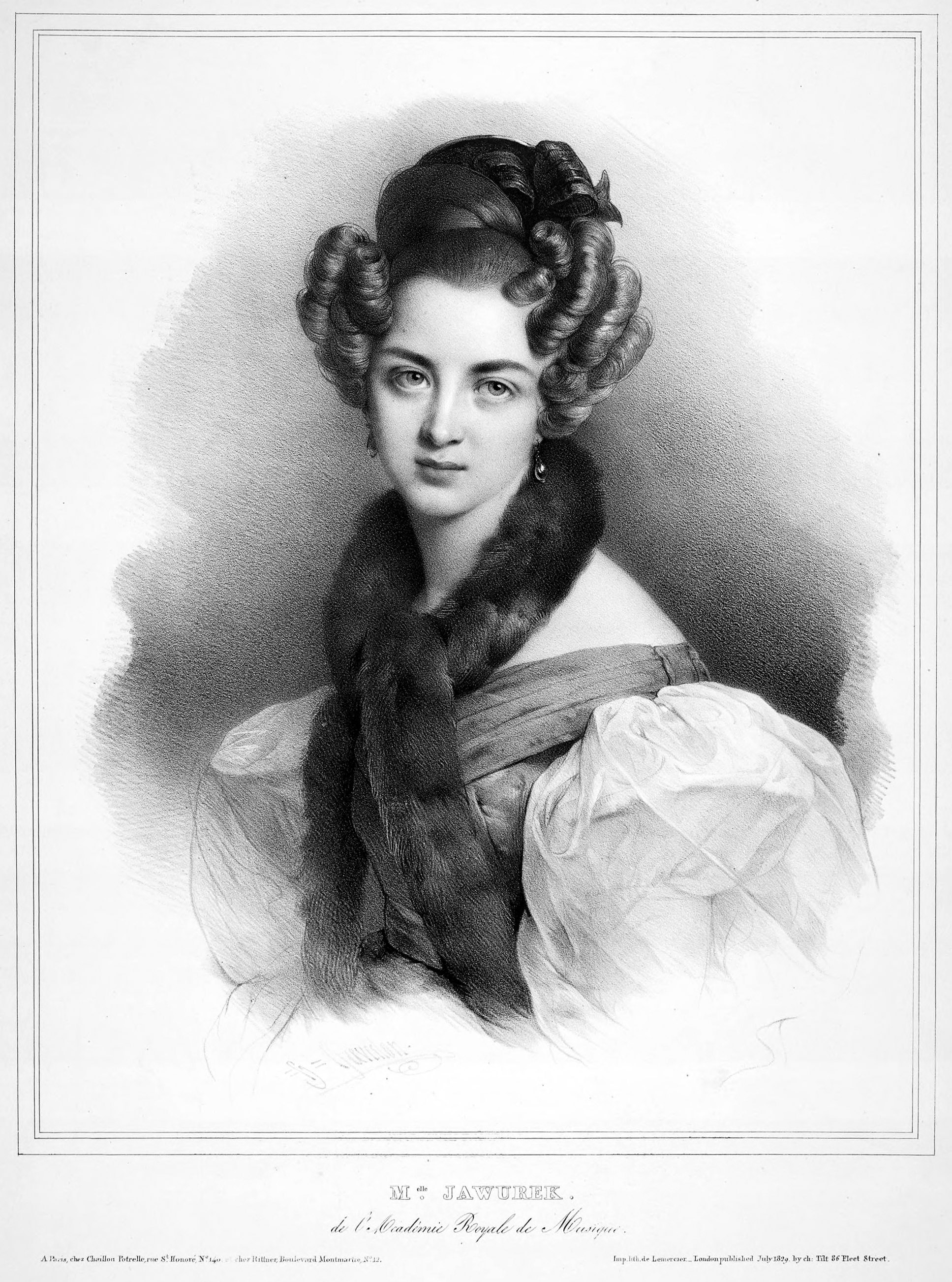 Constance Jawurek [Jawureck] (1803–1858), French mezzo-soprano at the Académie Royale de Musique in Paris